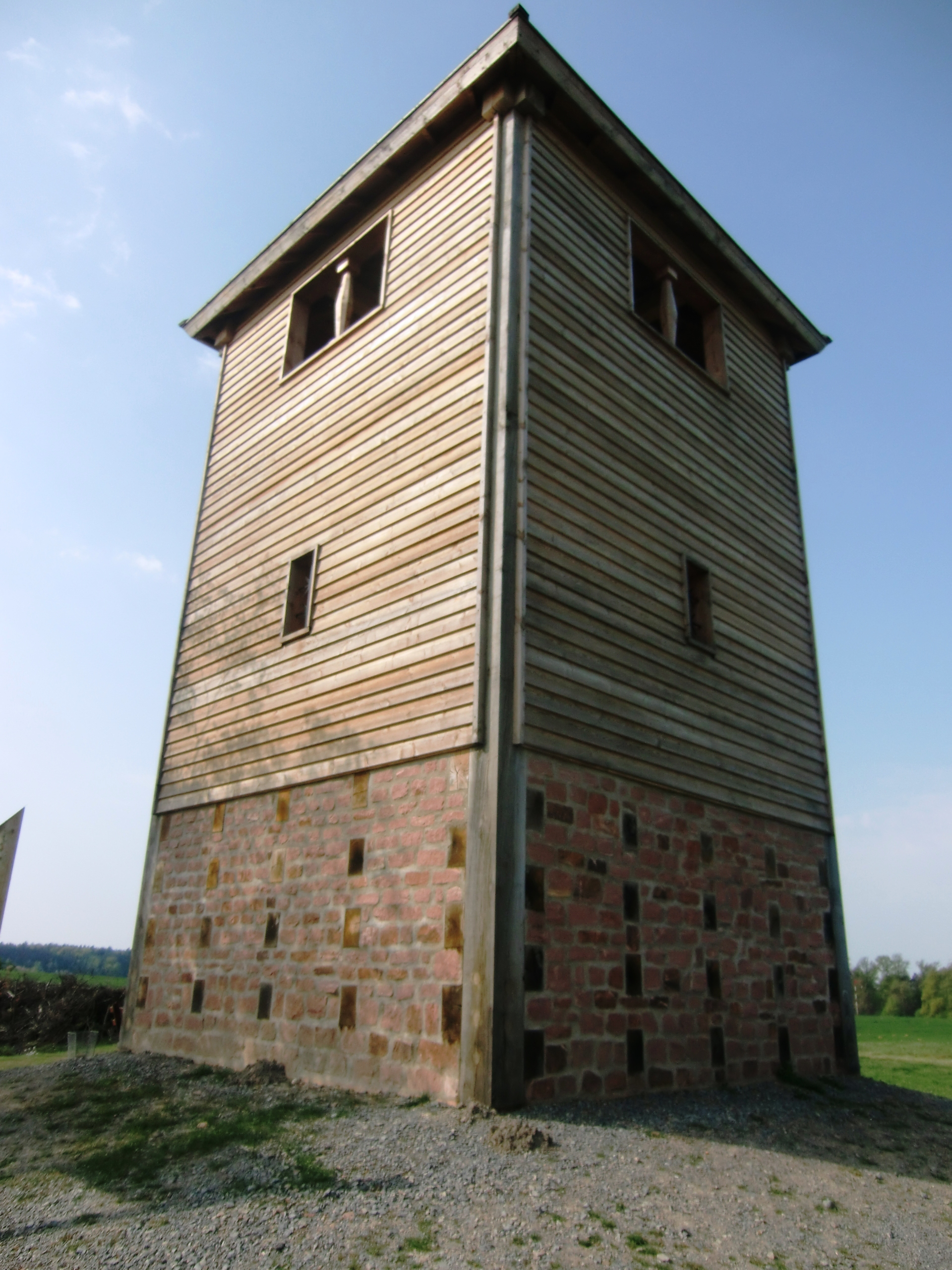 This is a replica of a wooden Limes-Watchtower at the Odenwaldlimes, based on the latest academic knowledge, created near the original location close by Vielbrunn, Hesse, Germany.